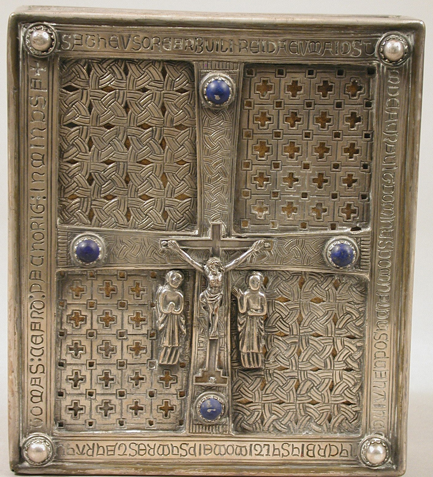 Irish; Shrine; Reproductions-Metalwork